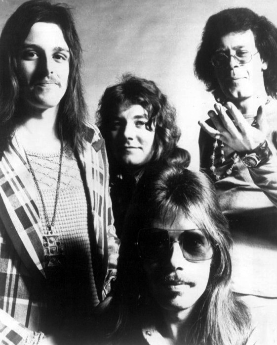 Publicity photo of the music group Climax Blues Band.